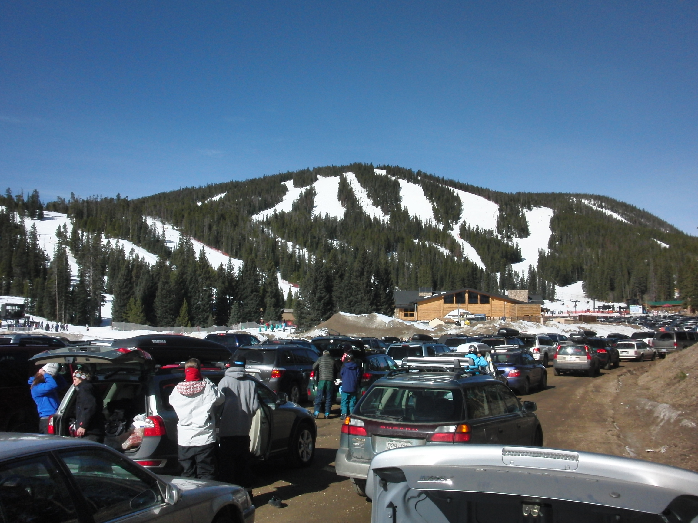 Eldora Mountain Resort - a view from the parking lot, facing Challenge Mountain